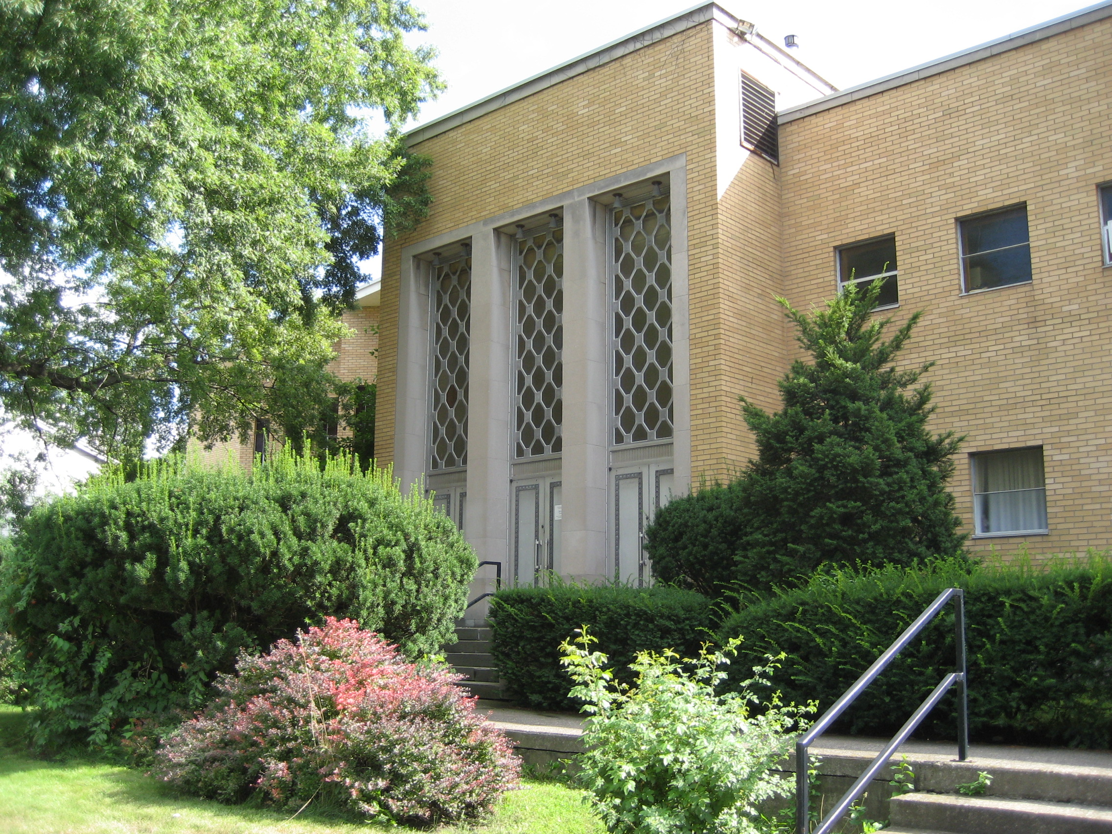 Beth Jacob Jewish Synagogue, Aberdeen Avenue West, Hamilton, Canada.